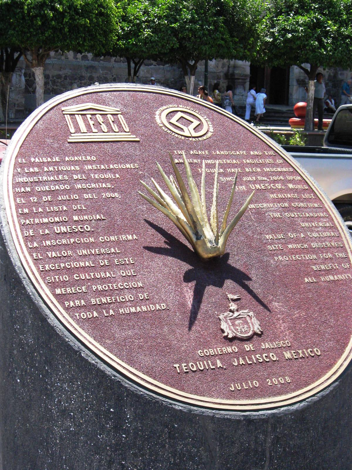 Plaque commemorating the inclusion of Tequila and the agave growing region on the World Heritage List by UNESCO